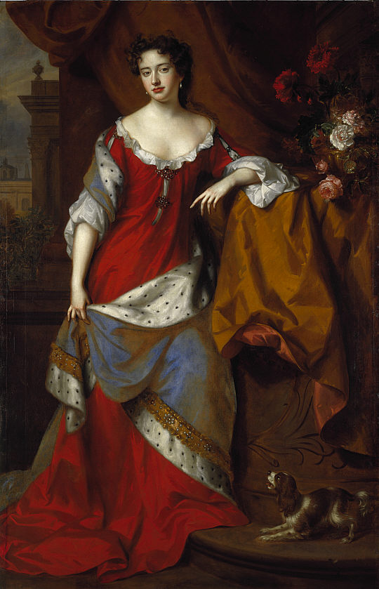 Her Highness The Lady Anne, the future Queen of Great Britain and Ireland, in 1685-6.